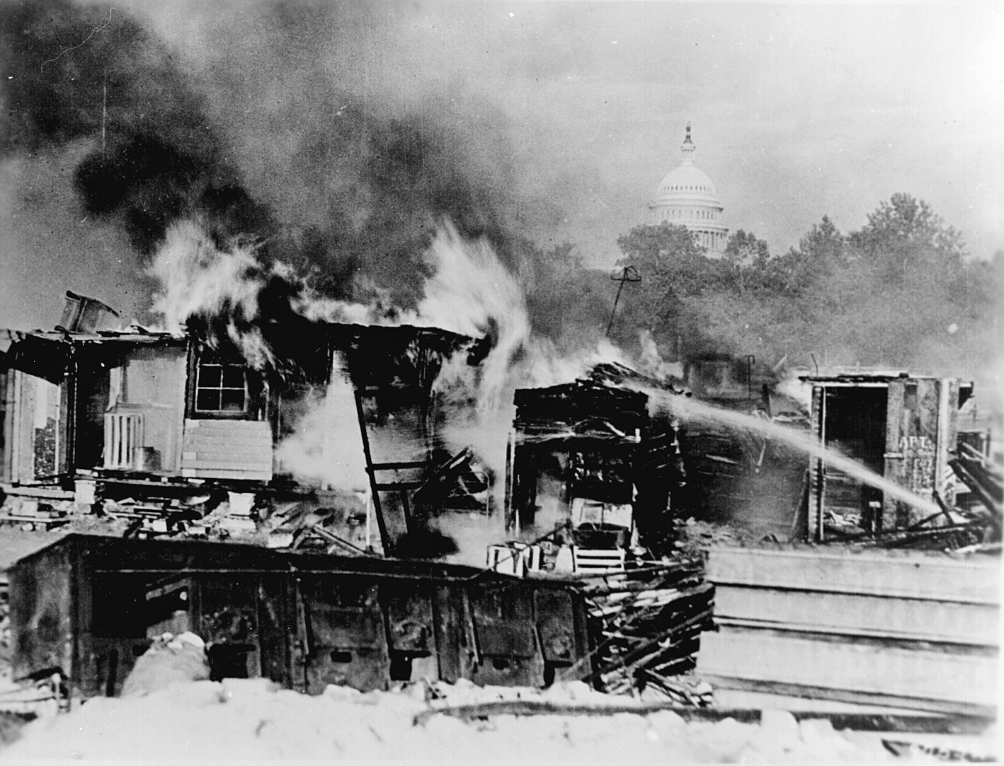 Shacks, put up by the Bonus Army on the Anacostia flats, Washington, D.C., burning after the battle with the military. The Capitol in the background. 1932.